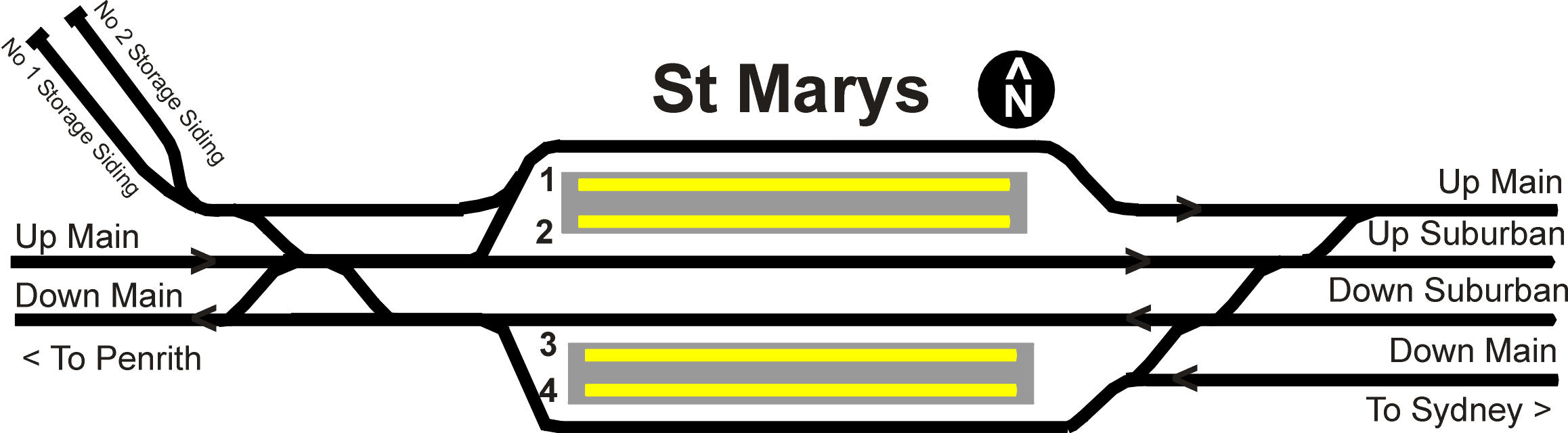 Track arrangement at St Marys railway station, Sydney